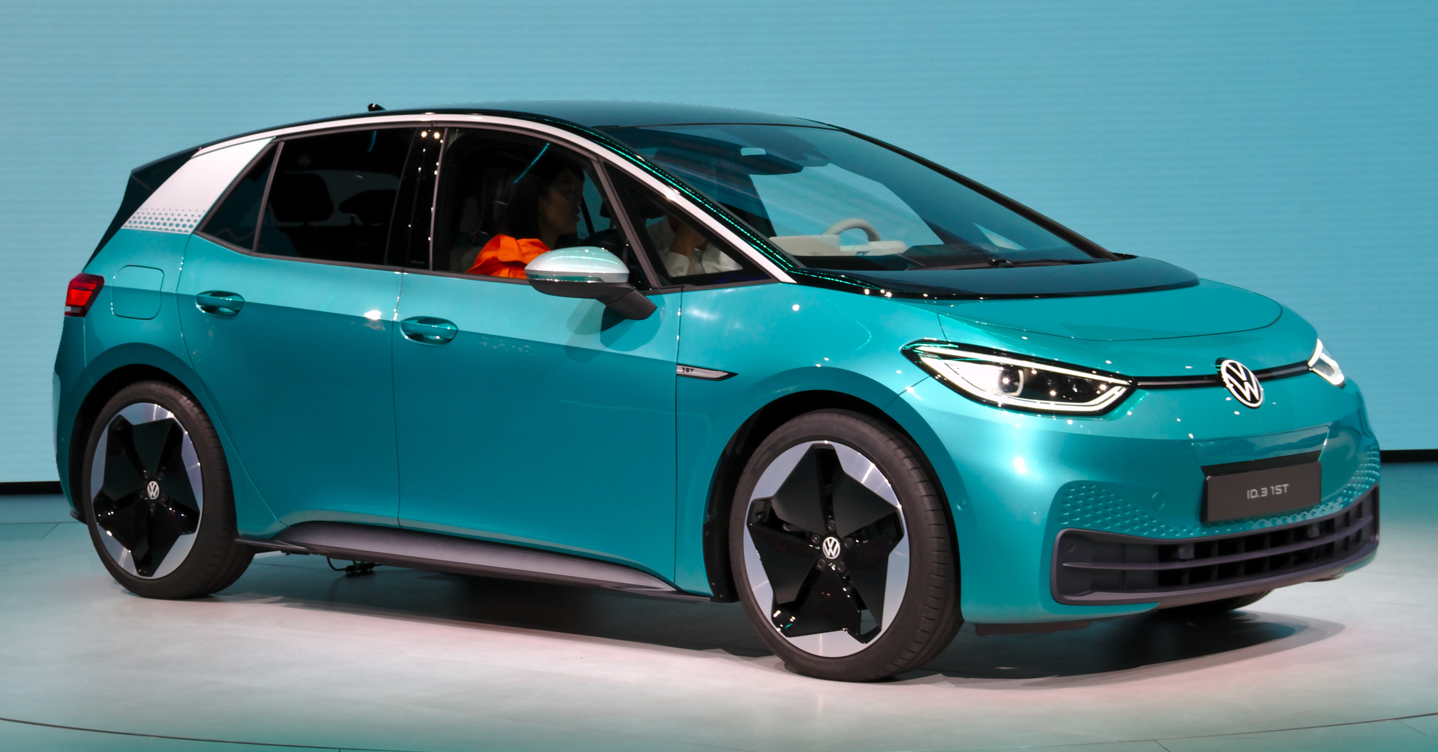 Volkswagen_ID.3 at IAA 2019